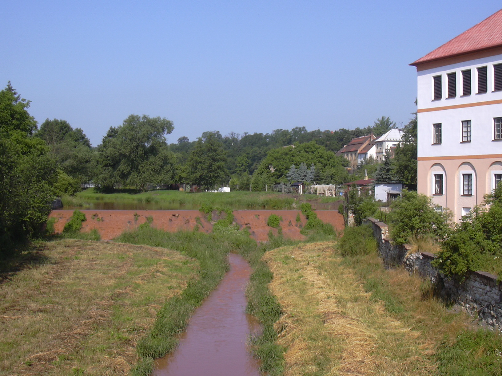 Castle building and weir on the river Blšanka in Měcholupy